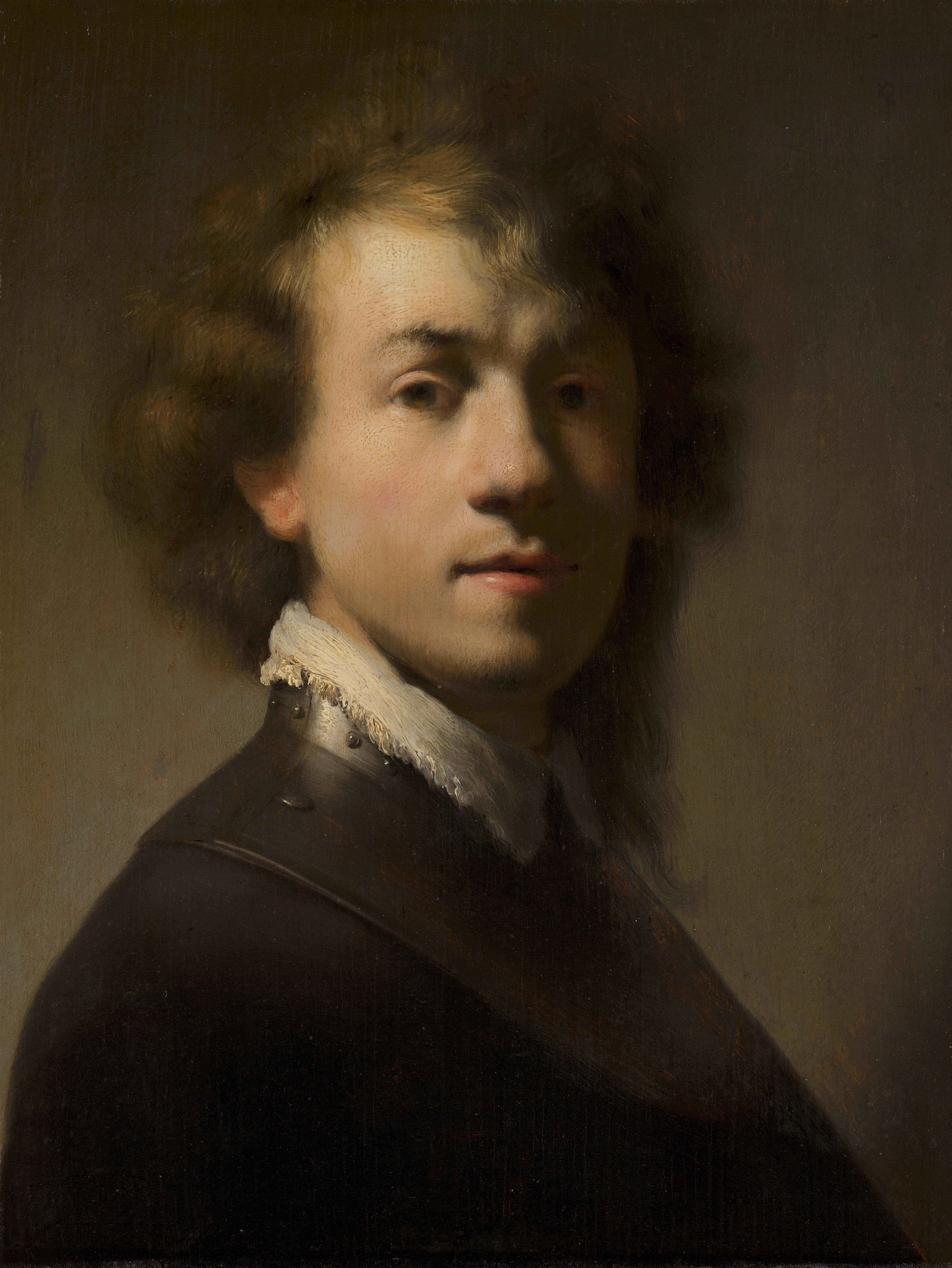 Portret van Rembrandt met ringkraag, studio of Rembrandt van Rijn, c. 1629, Mauritshuis, The Hague